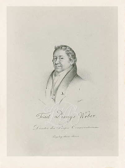 The portrait of composer Bedřich Diviš Weber